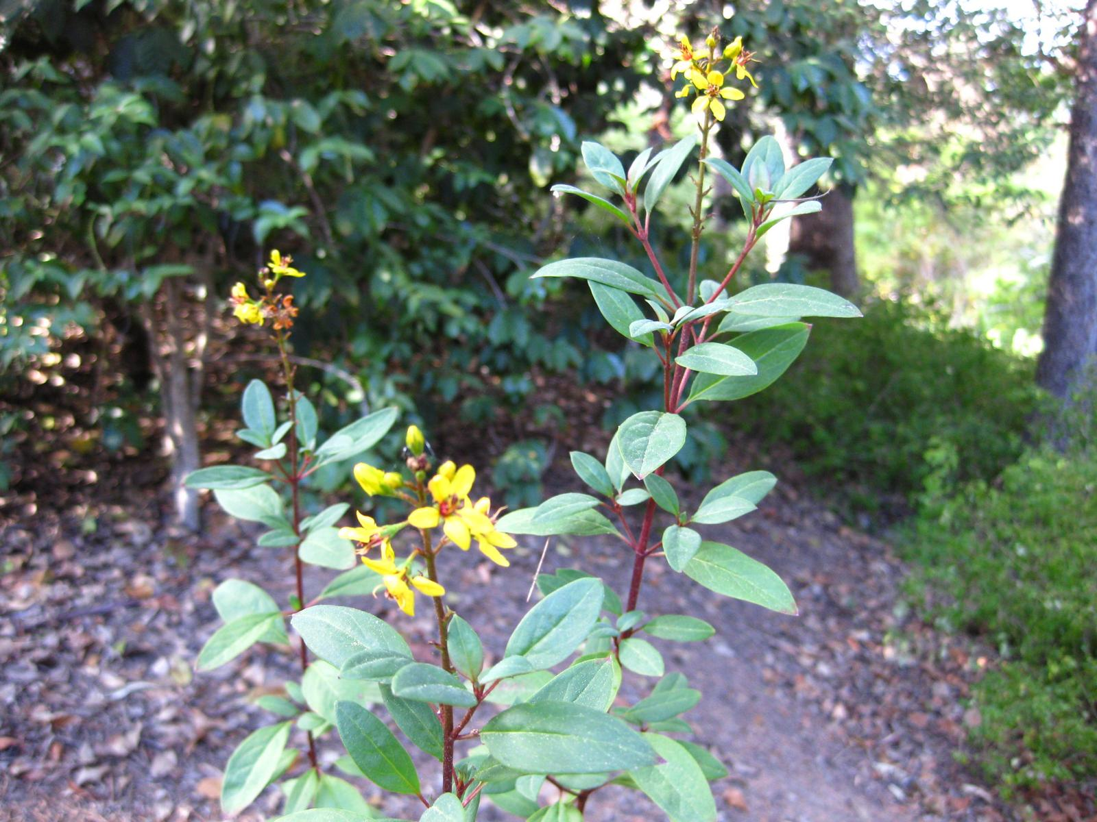 Photographed at Mildred E. Mathias Botanical Garden at UCLA, Westwood, (Los Angeles, California) - in November.